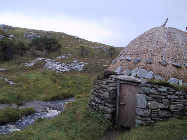 Norse Mill and burn Norse mill located on the burn into Loch na Muilne (Mill Loch). There is actually a small run of salmon up this burn, though you might not believe it when you see it.